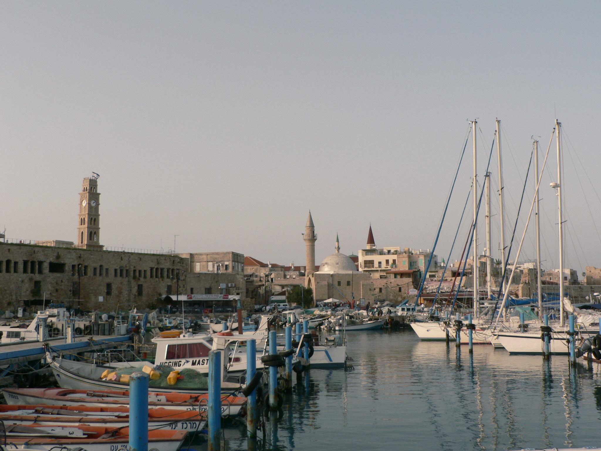 Old town, view from the harbour